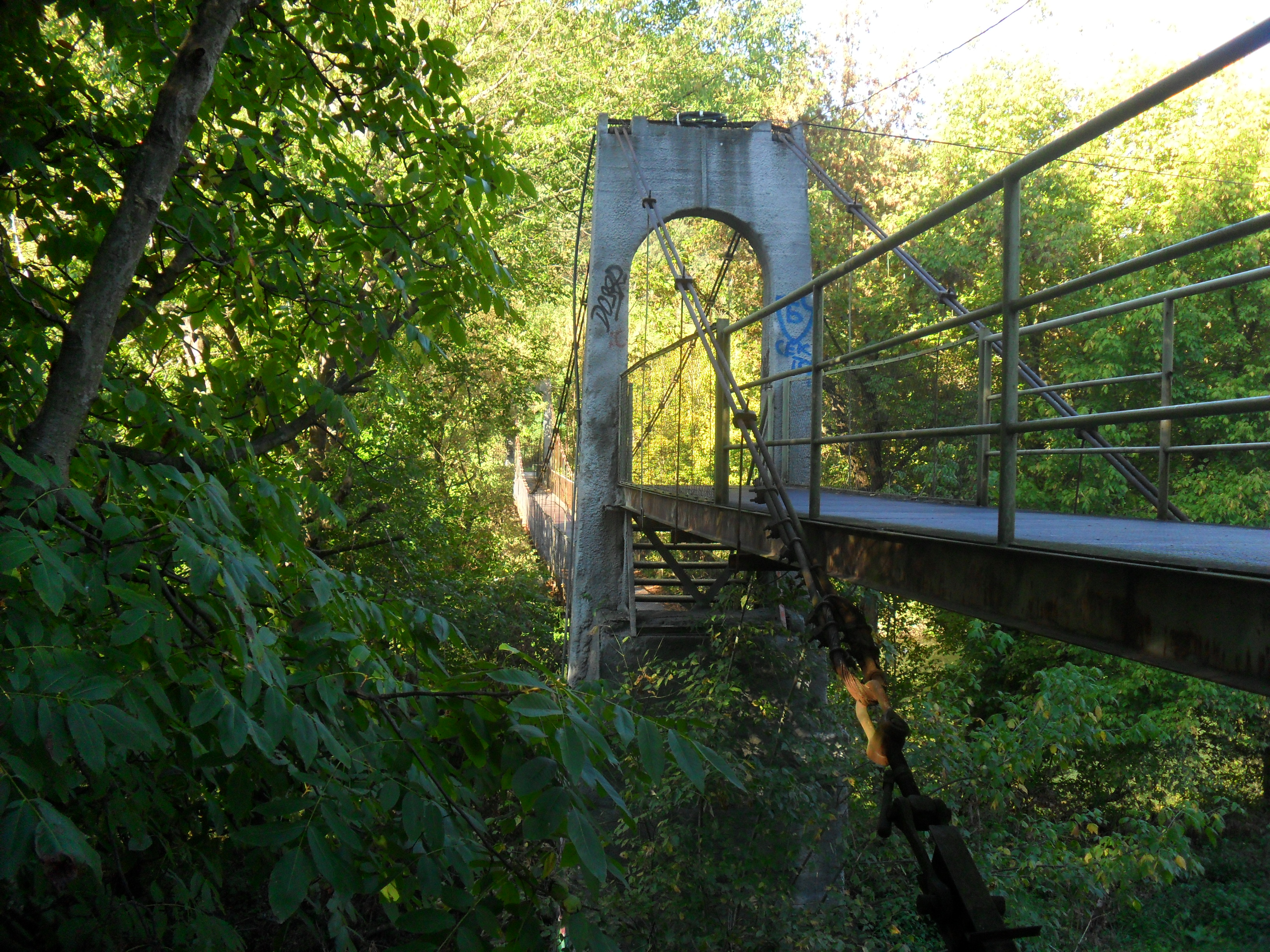 This bridge were build in 1985